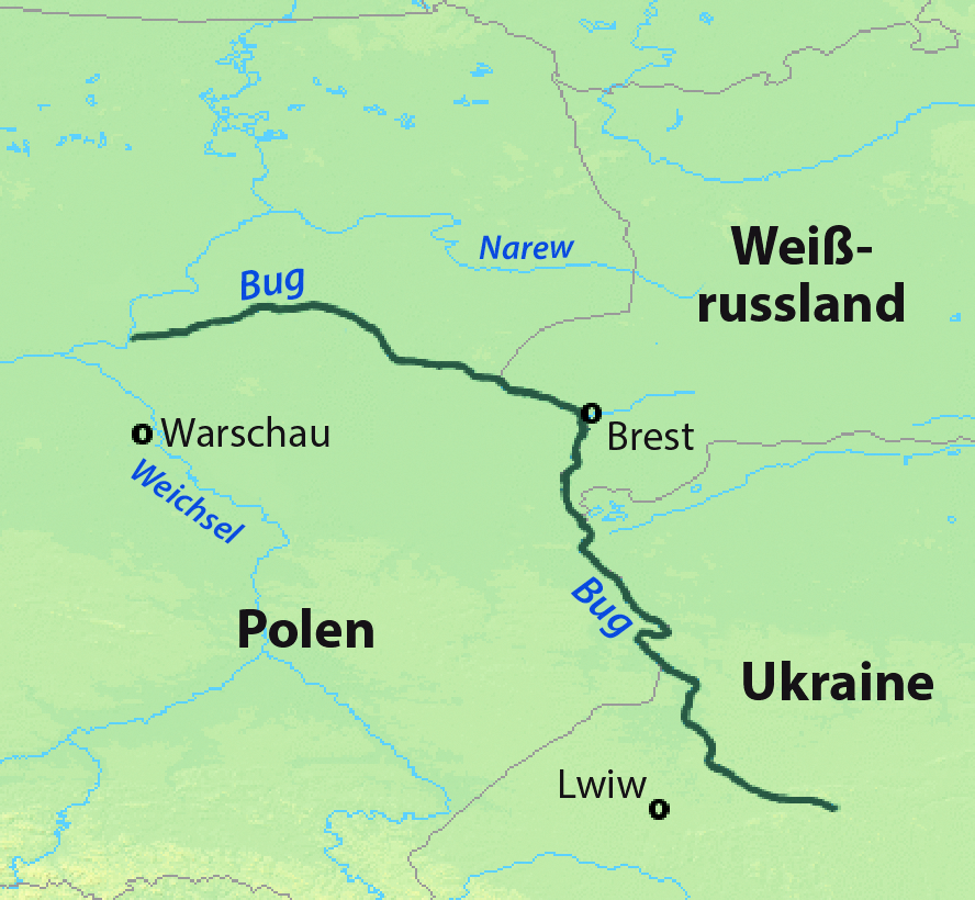 Route of the Western Bug river